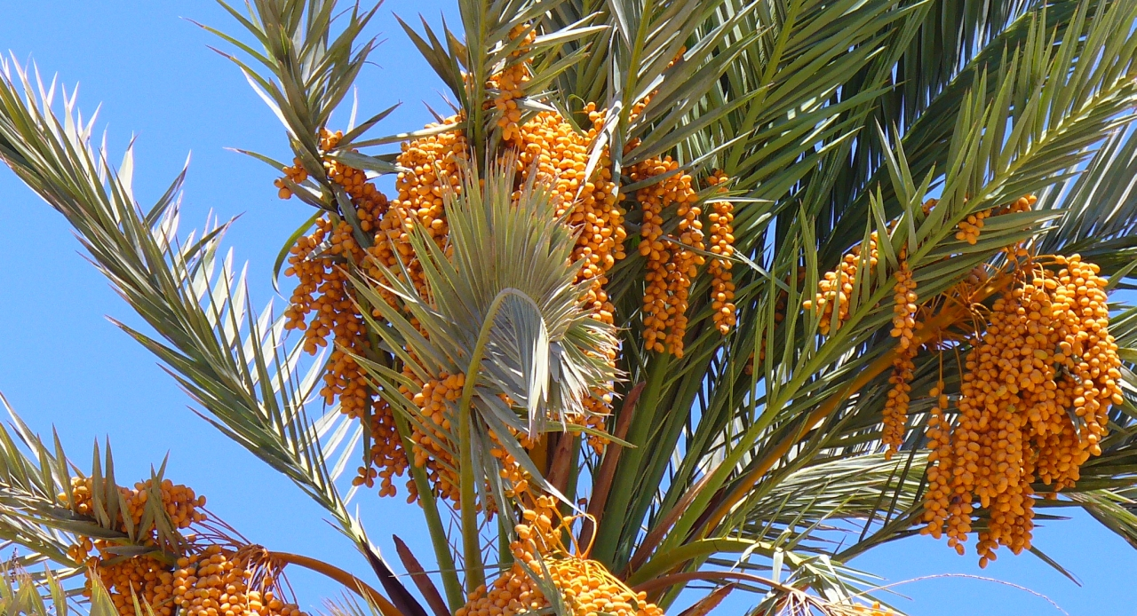 Date Palm (Phoenix dactylifera), Dahab, South Sinai, Egypt.